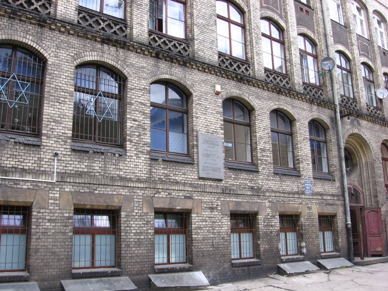 Jewish community, small synagogue and kosher kitchen in Wrocław